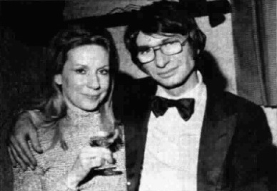 Italian singer Nicola Di Bari celebrates his victory at Canzonissima in a restaurant with lyricist Franca Evangelisti